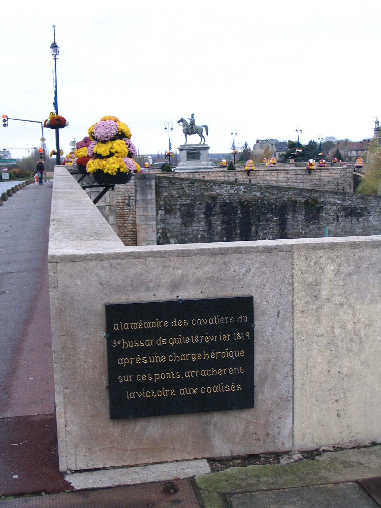 Plaque commemorating 1814 Napoleon battle, in Montereau-Fault-Yonne, Seine-et-Marne, France.